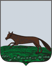 Ufa (Bashkortostan), coat of arms (1782)